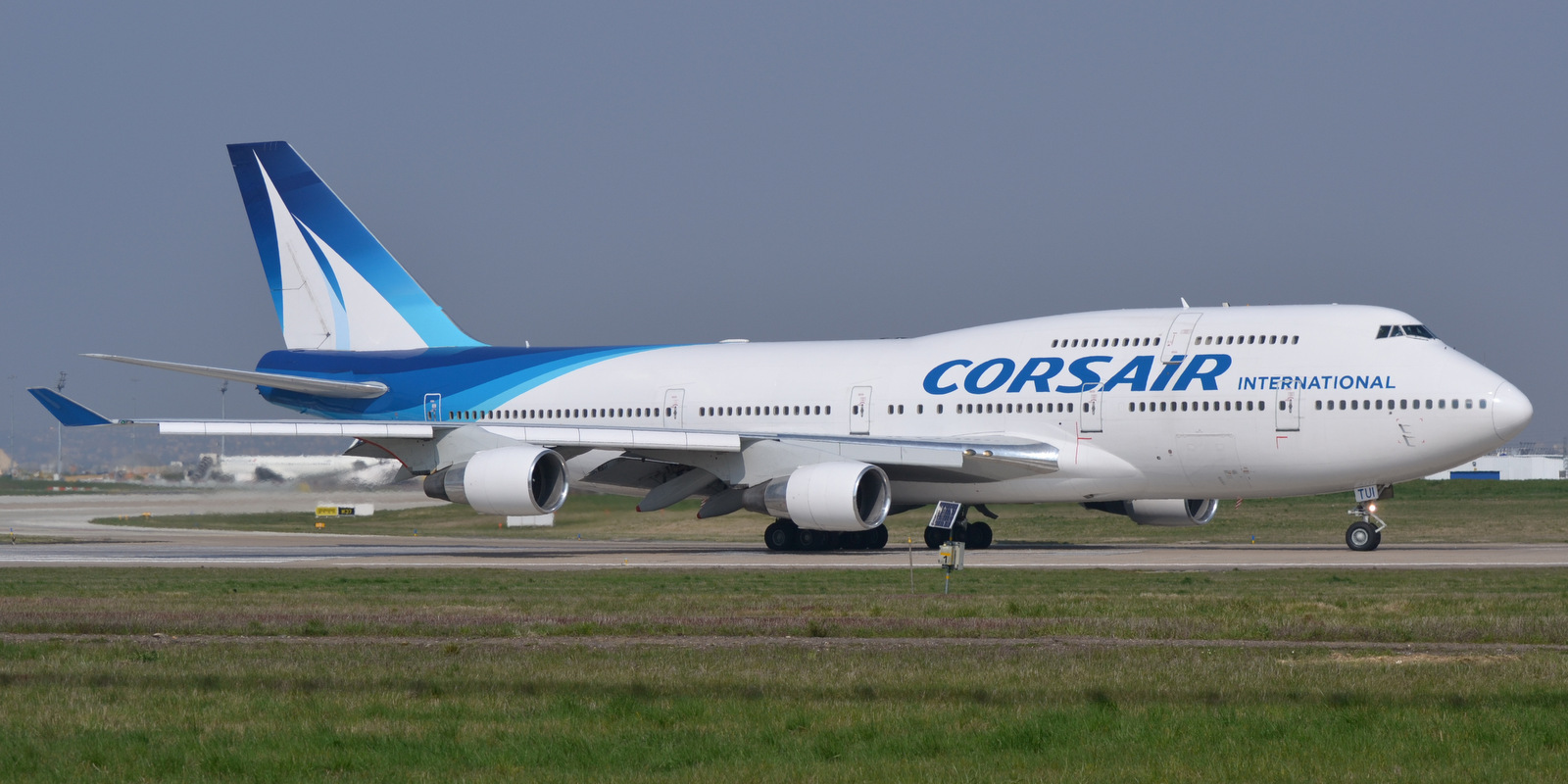 Paris-Orly Airport